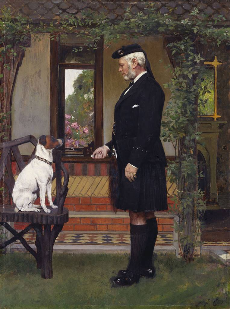 John Brown is depicted here at Frogmore House in Home Park, Windsor. He was a ghillie (outdoor servant) from Balmoral Castle in Scotland which the Queen and Prince Albert had bought in 1853. After Albert’s death the Queen developed a close relationship with him, and he was extremely protective of her. Shortly after Brown’s death in 1883 the Queen wrote in a letter ‘Perhaps never in history was there so strong and true an attachment, so warm and loving a friendship between the sovereign and servant…Strength of character as well as power of frame – the most fearless uprightness, kindness, sense of justice, honesty, independence and unselfishness combined with a tender, warm heart…the most remarkable of men’. Signed and dated: C. Sohn jr / 83. Inscribed on the back as a portrait of Brown with Spot at Frogmore in 1882, painted in 1883 from a photograph.